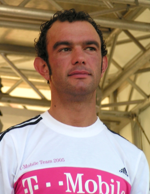 The Italian racing cyclist Daniele Nardello at the team presentation for the Deutschland Tour 2006 in Düsseldorf, Germany.